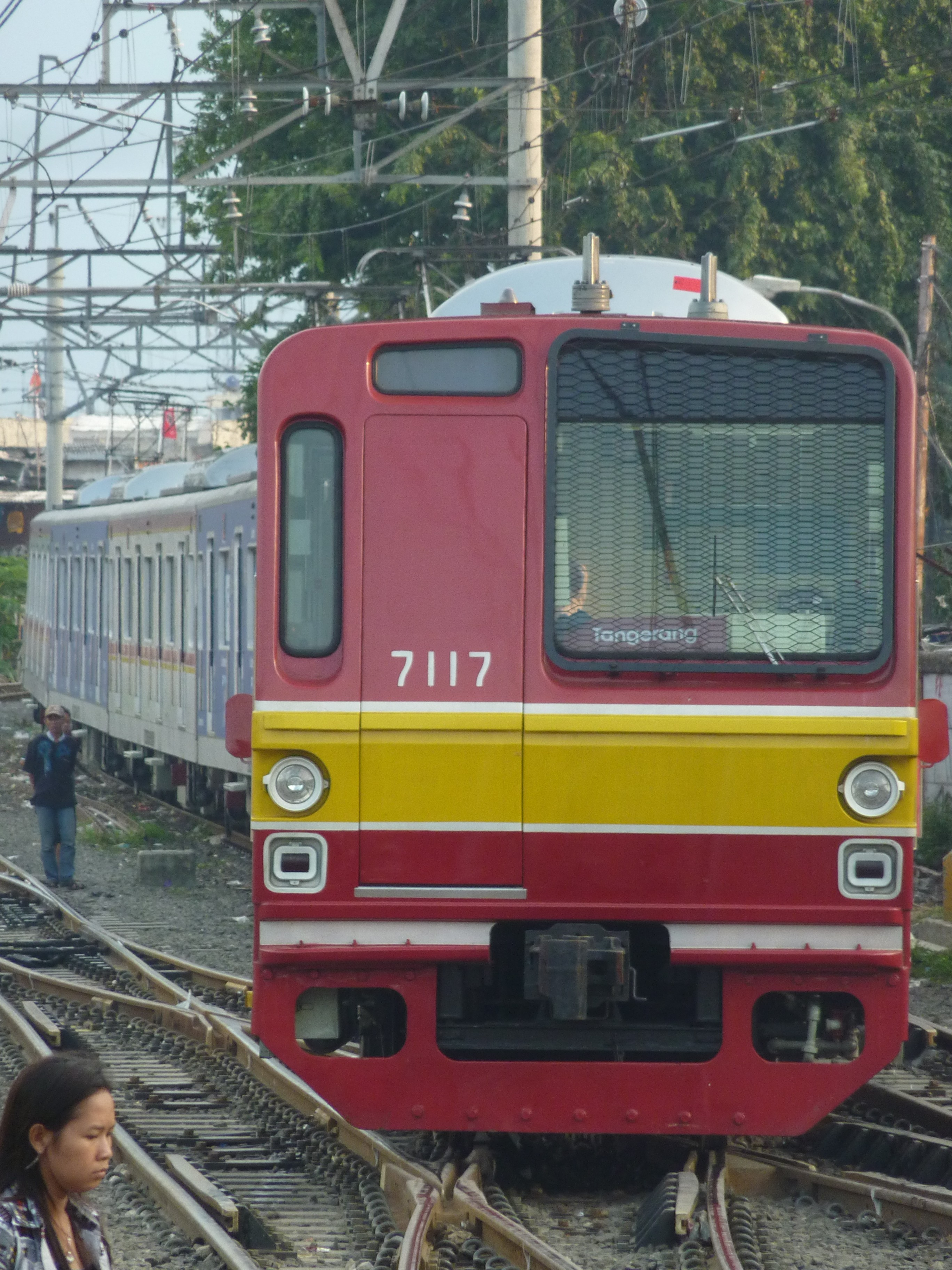 Former Tokyo Metro Yurakucho Line 7000 series EMU set 7117 on an evening service for Tangerang departing from Duri Station in West Jakarta in Indonesia